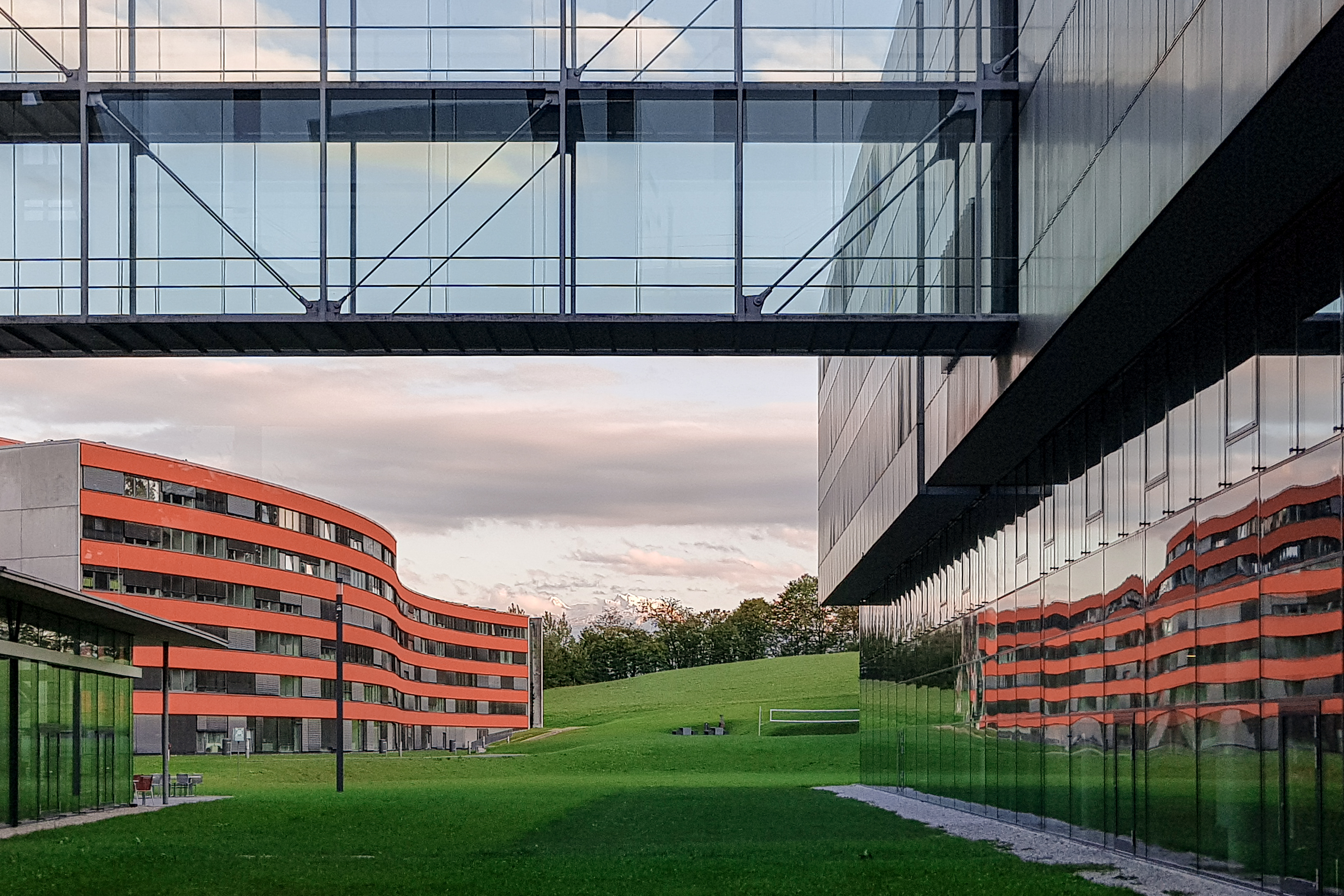 View towards the student dormitory Campus Urstein